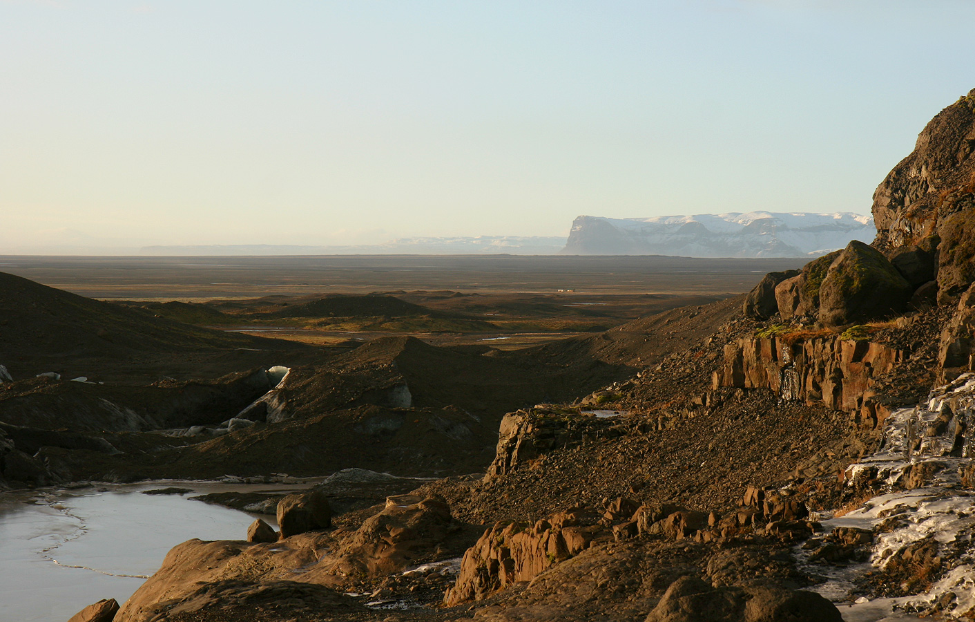 West from Svínafellsjökull over the Skeiðarársandur toward Lómagnúpur, November 24 14:35 Iceland, November 2007 Photo by me user:debivort (or friend, with permission given to freely license photo).